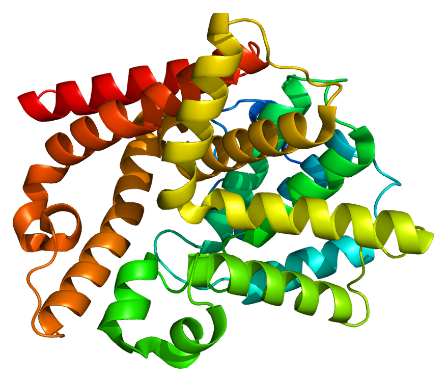 Structure of the PDE10A protein. Based on PyMOL rendering of PDB 2o8h.